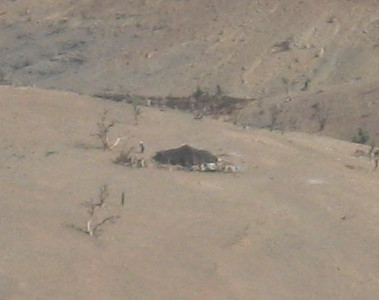 Photograph by Wikipedia contributor InnocentsAbroad. Taken June, 2006.